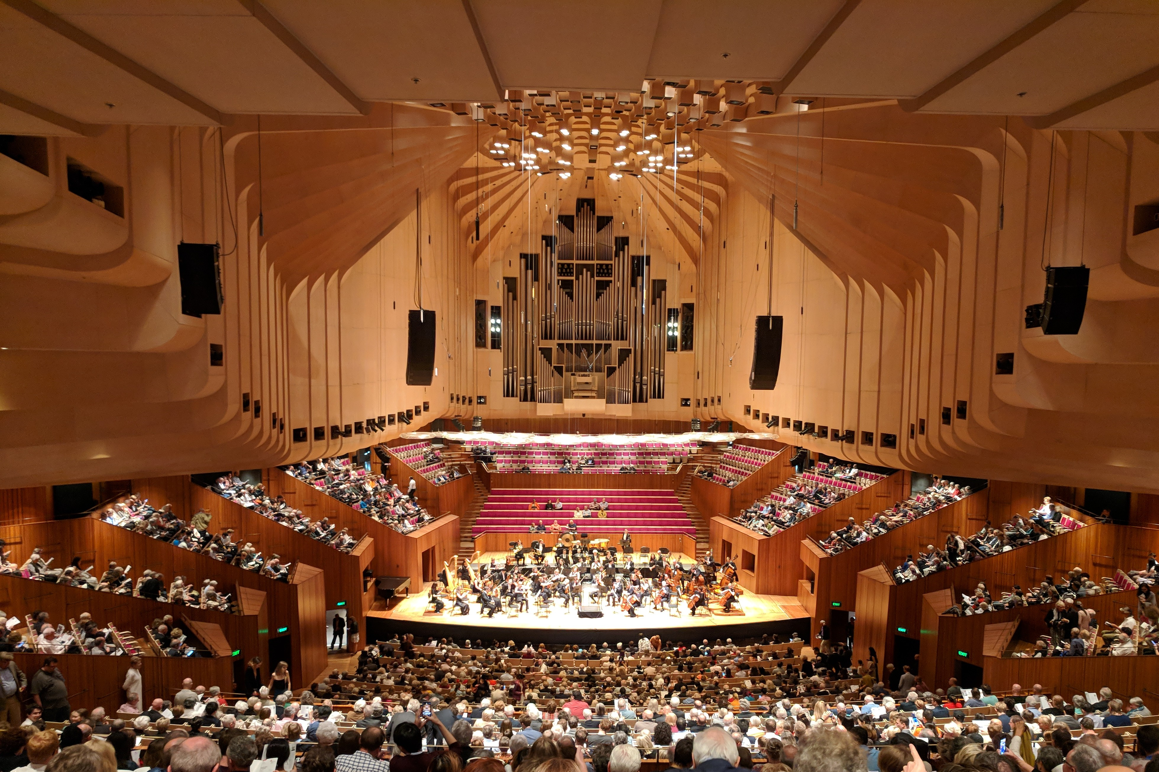 The concert hall at the Sydney Opera House just before a performance by the Sydney Symphony Orchestra